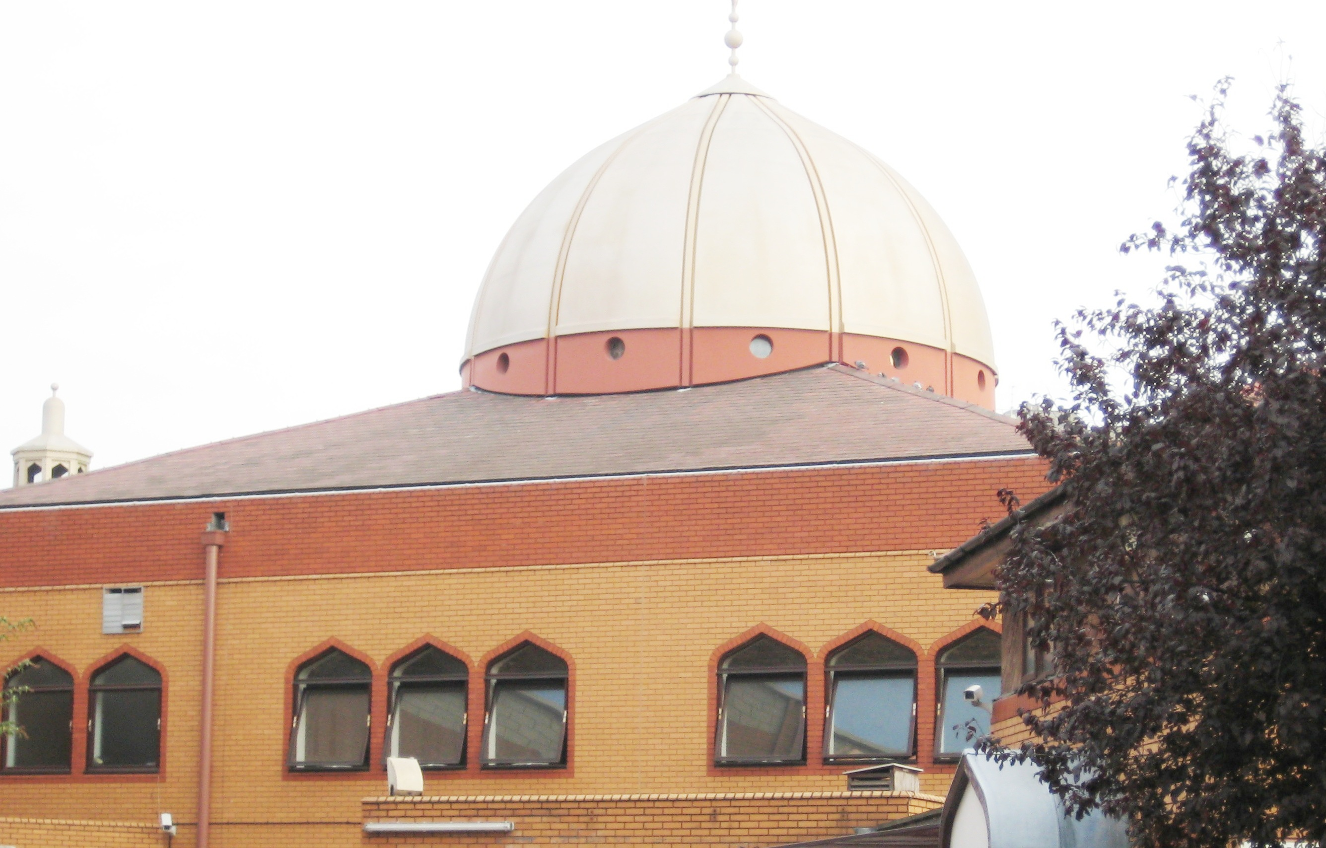 The main dome of the East London Mosque, London as viewed from the rear (Fieldgate St.) entrance.